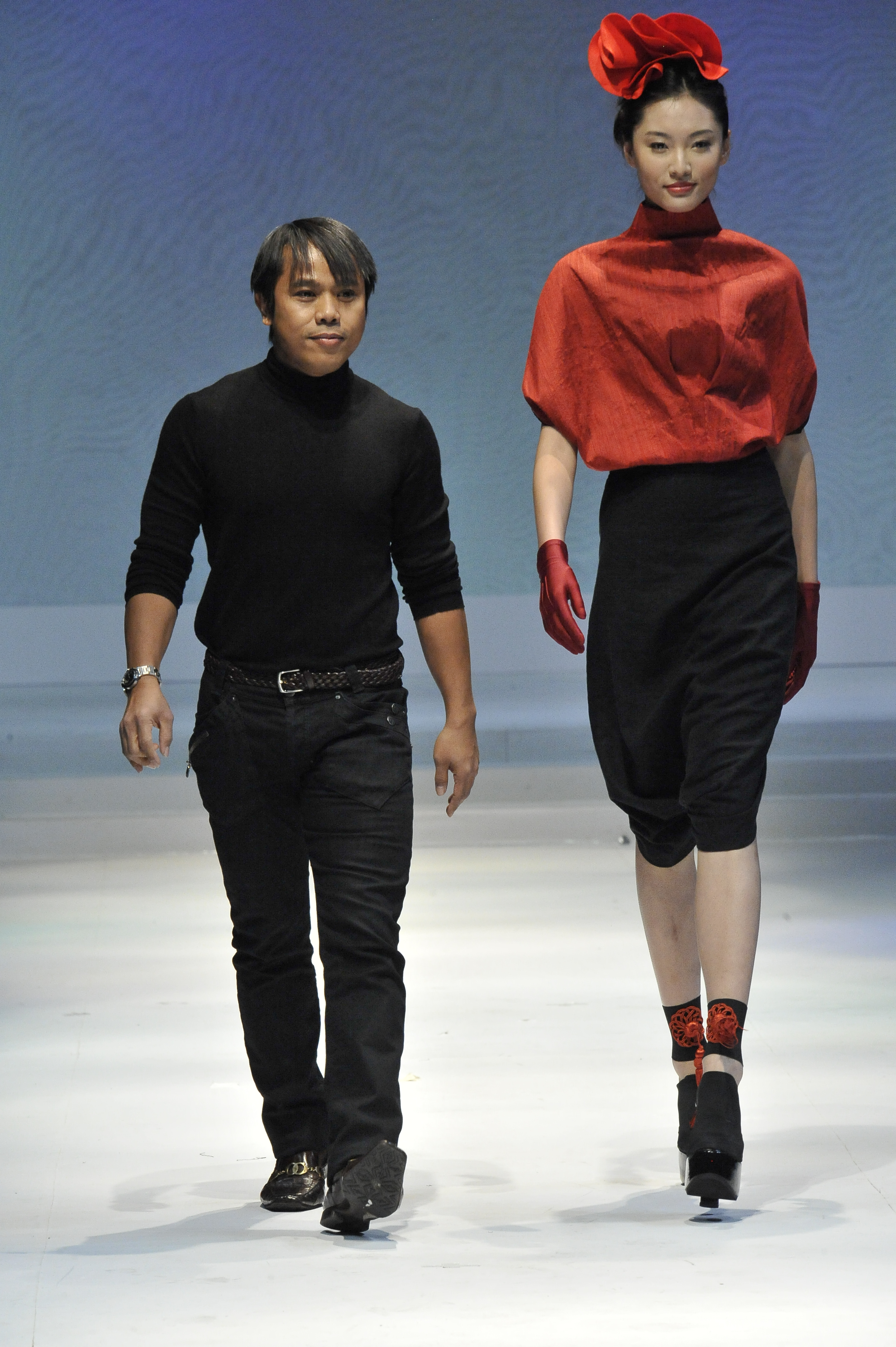 photo of finale with the designer